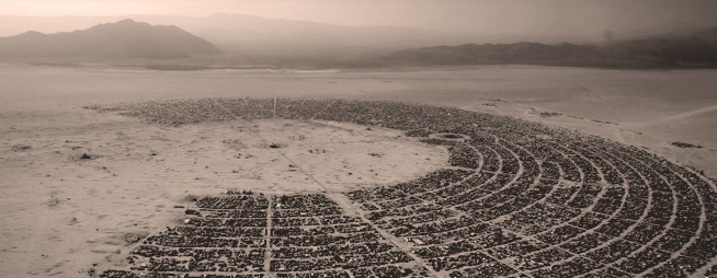 Black Rock city. Festival Burning Man.